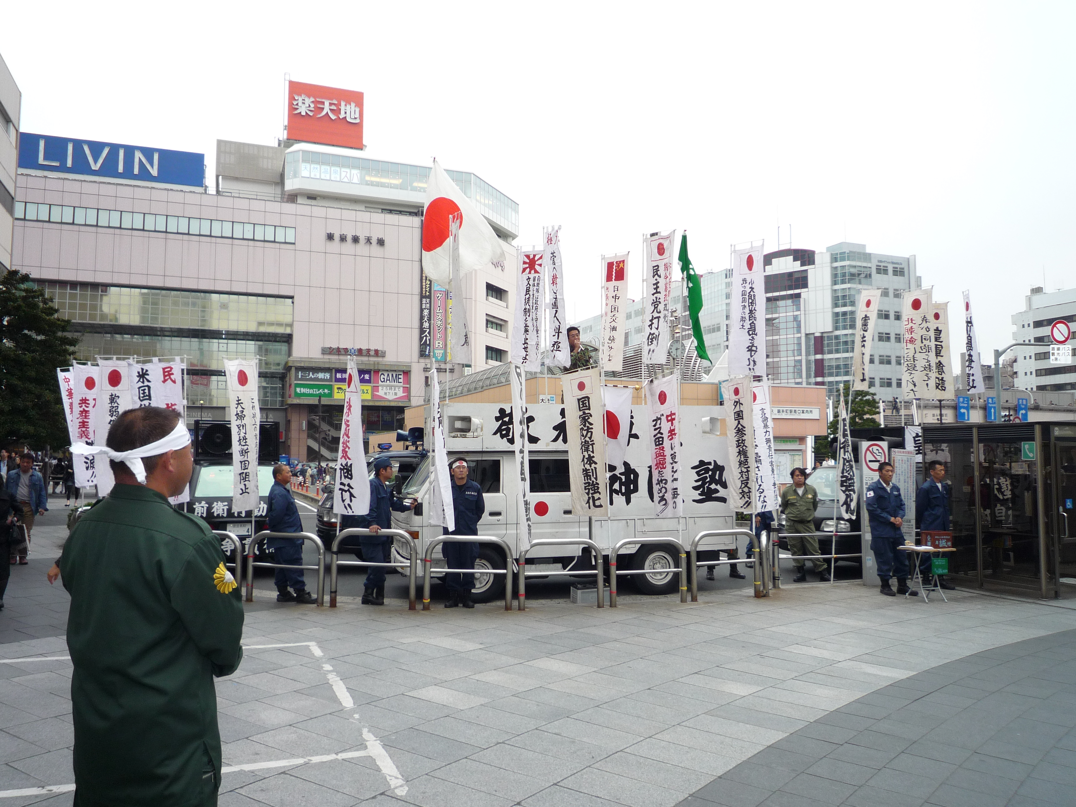 Japanese right-wing group (街宣右翼/Gaisen Uyoku) made an anti-China speech at square of Kinshichō station southen exit.